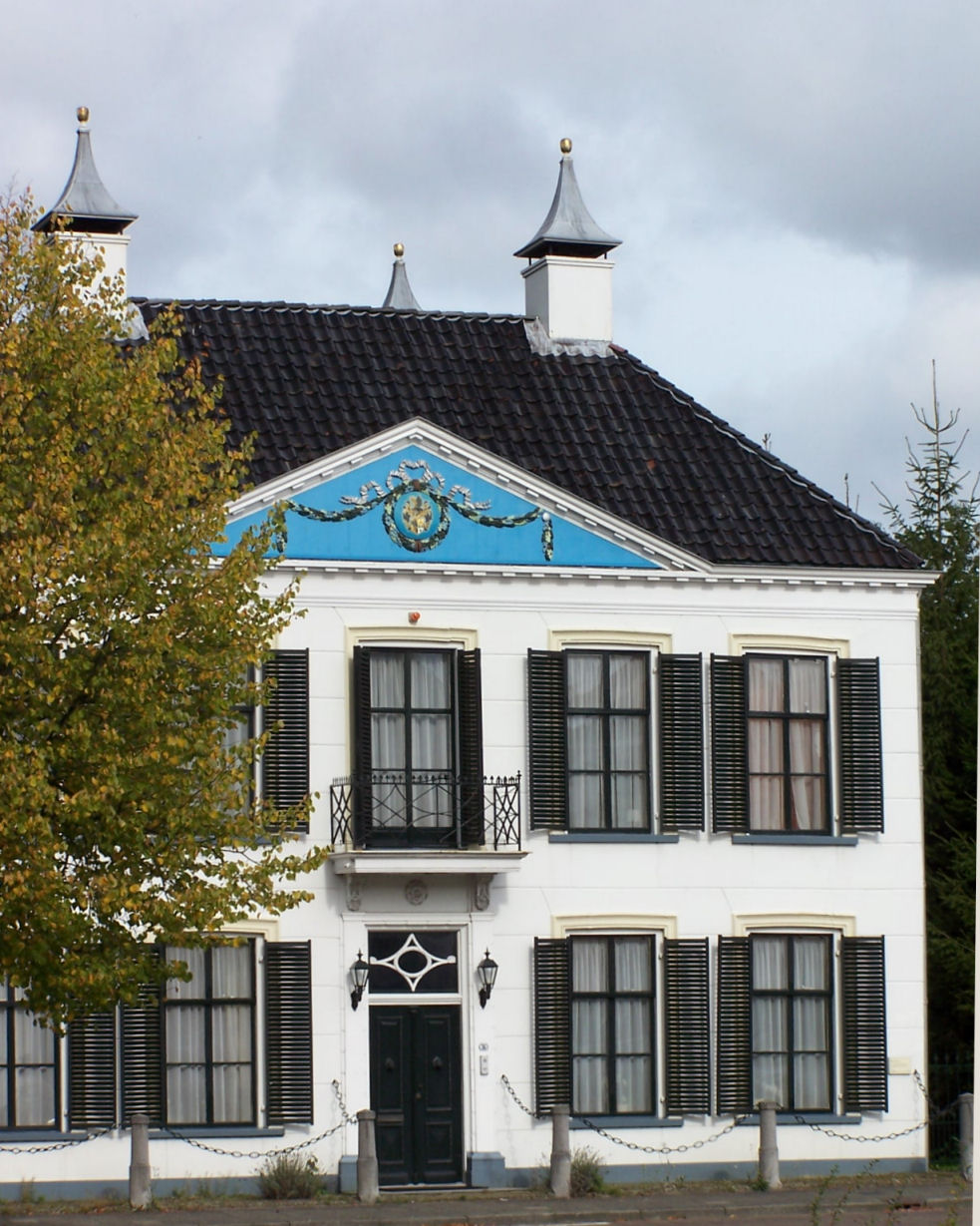 Witte Huis ('White House') in Assen